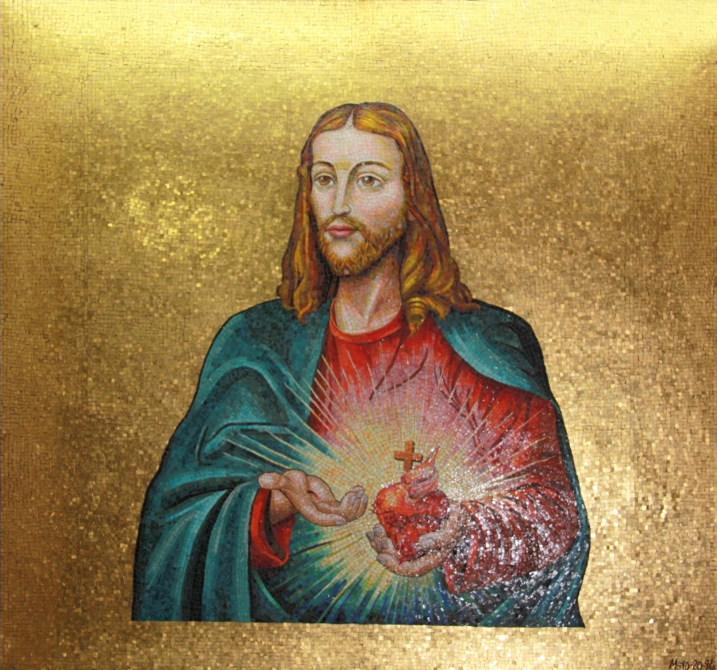 Saint Augustinus Church, Miguel Hidalgo, Federal District, Mexico